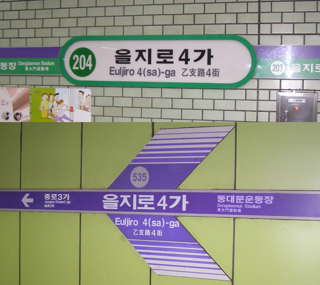 Euljiro 4-ga Station